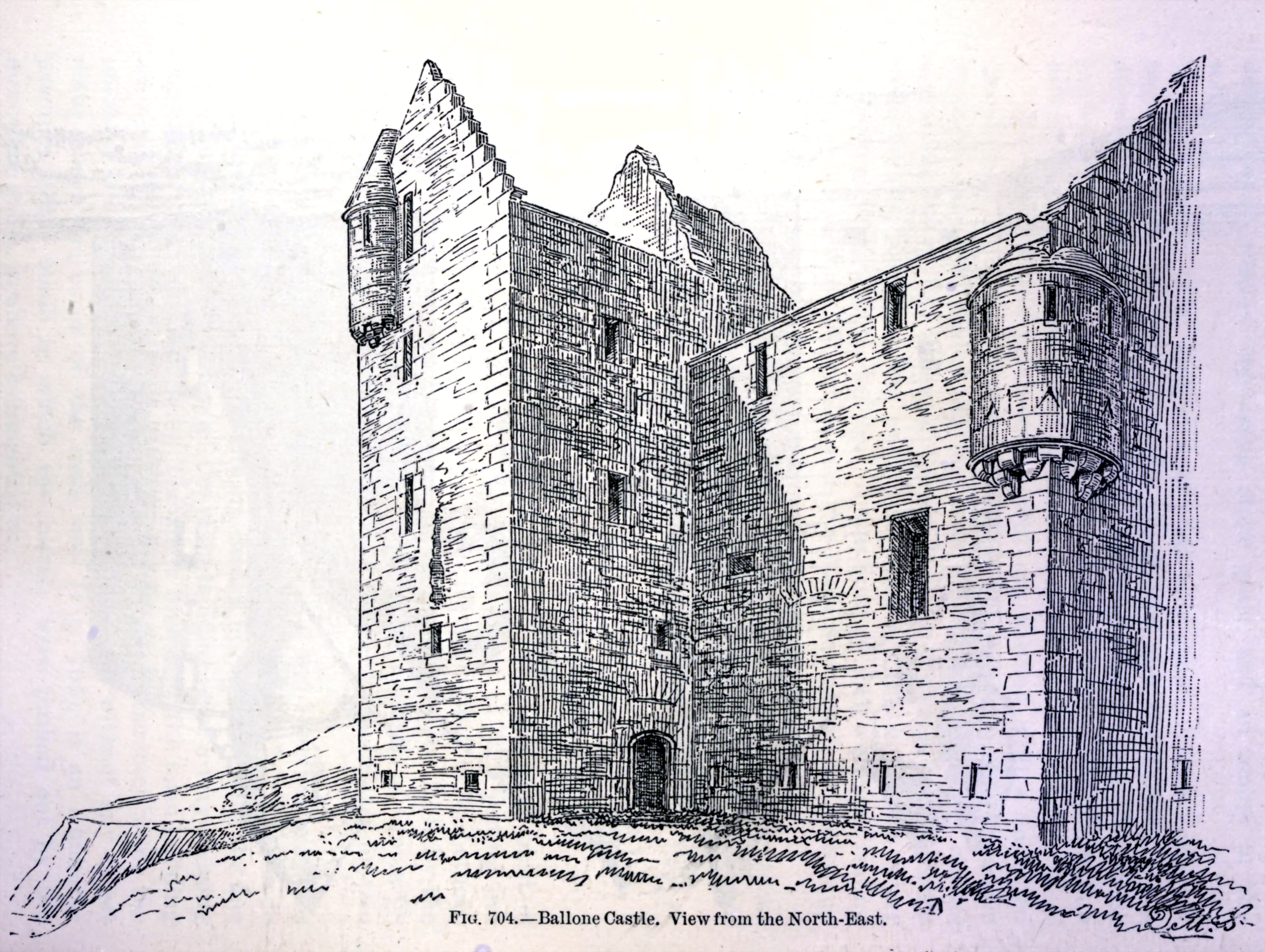 Ballone Castle, Tarbat-peninsula, Highlands, Scotland. View from northeast.